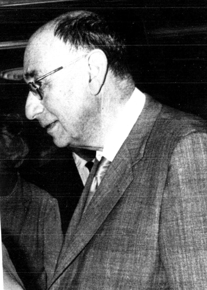 Hans Liebeschuetz.jpg portrati